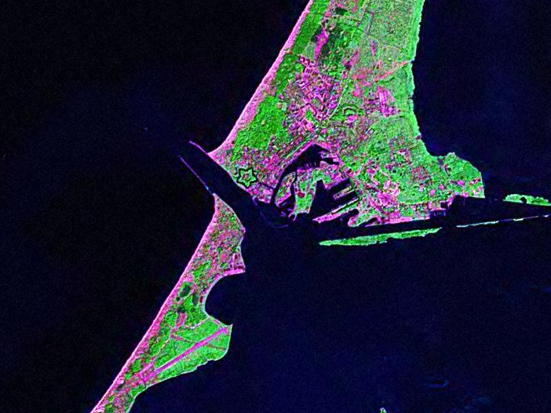 Baltijsk, Russia (Kaliningrad Oblast) - photo taken by Landsat satellite circa 2000.